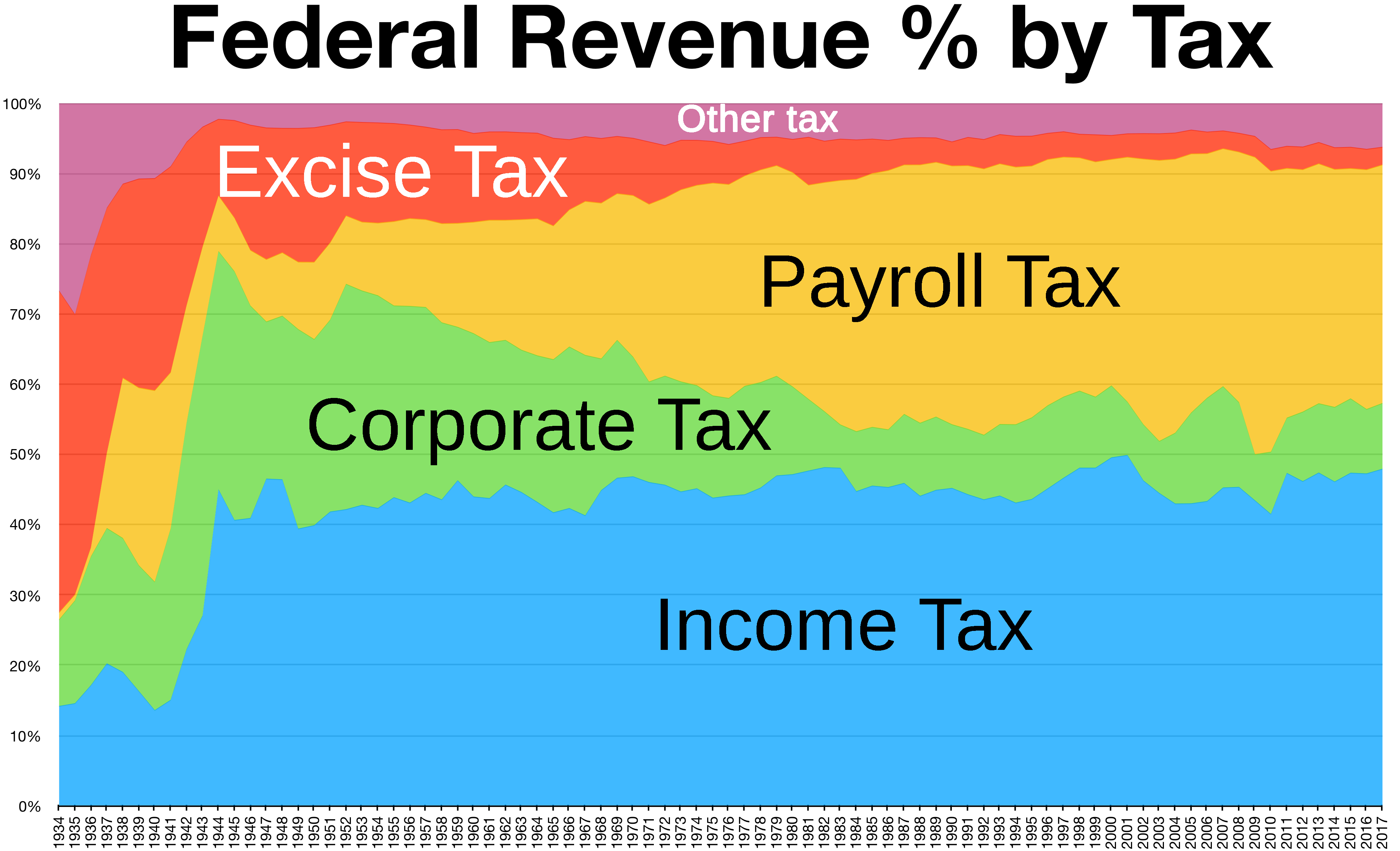 Taxes revenue by source chart history